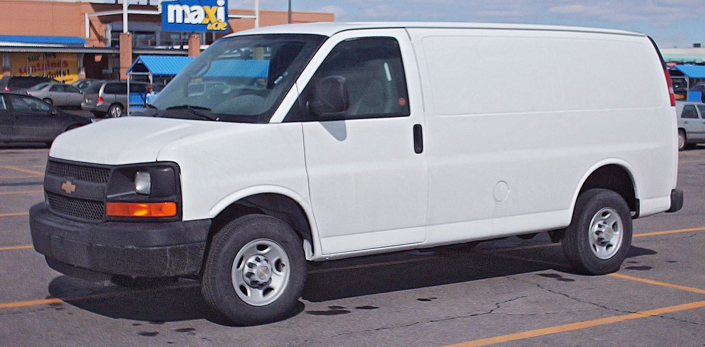 1997-present Chevrolet Express photographed in Montreal, Quebec, Canada.